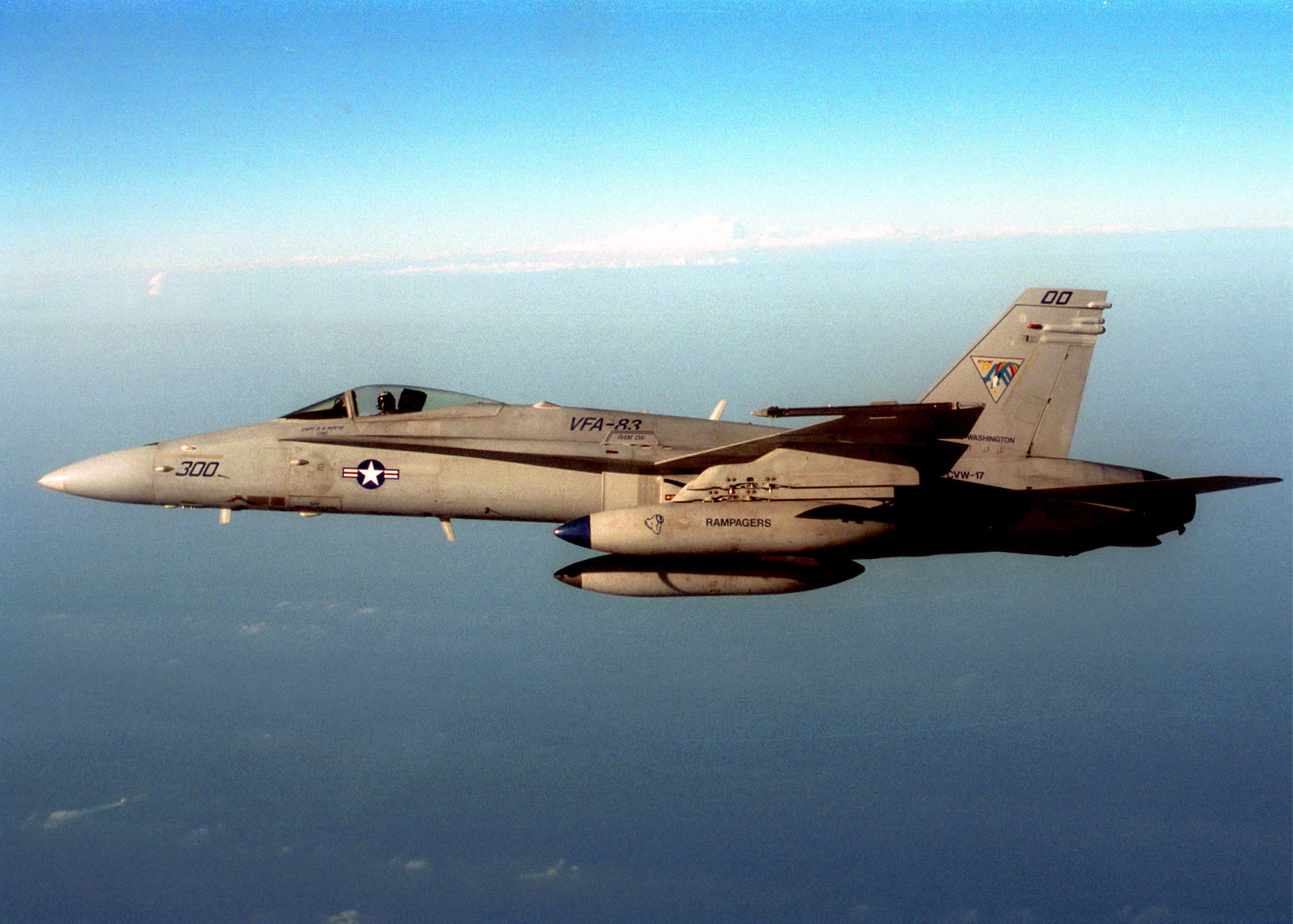 An F/A-18C(N) Hornet from the Rampagers of strike fighter squadron VFA-83 assigned to Carrier Air Wing Seventeen (CVW-17), climbs to an assigned altitude after completing a catapult launch from the aircraft carrier USS George Washington (CVN-73) in 2002. George Washington and her battlegroup were on a regularly scheduled deployment conducting missions in support of Operation Enduring Freedom. The Hornet BuNo. 165220 was the personal airctaft of the Commander Air Group (CAG) of CVW-17, Capt. Dana Potts, and carries the emblem of CVW-17 on its tail, whereas the Rampager´s emblem and name is painted on the drop tanks.